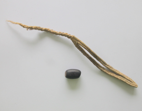 Sling with bullet Inca period from Peru.